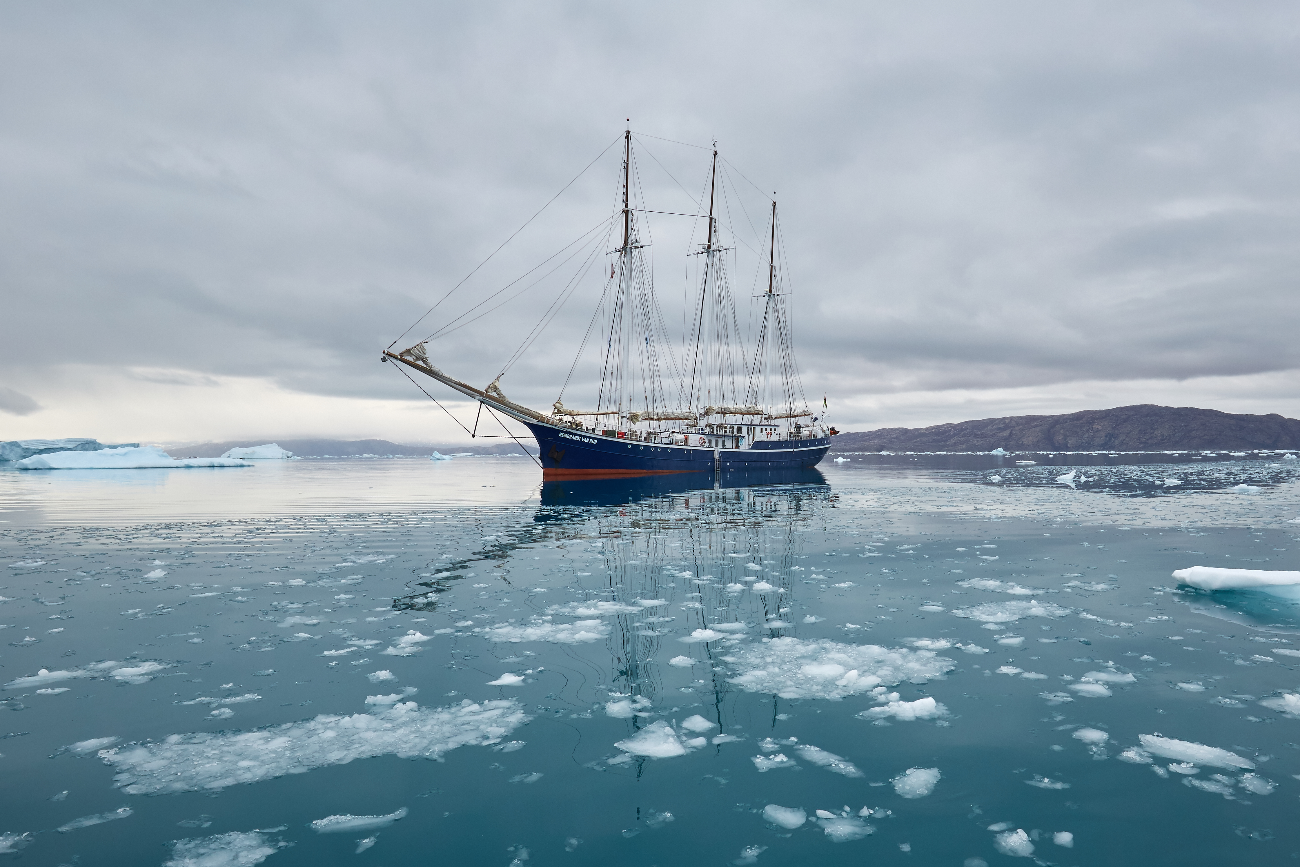 S/V Rembrandt van Rijn in Disco Bay, Greenland